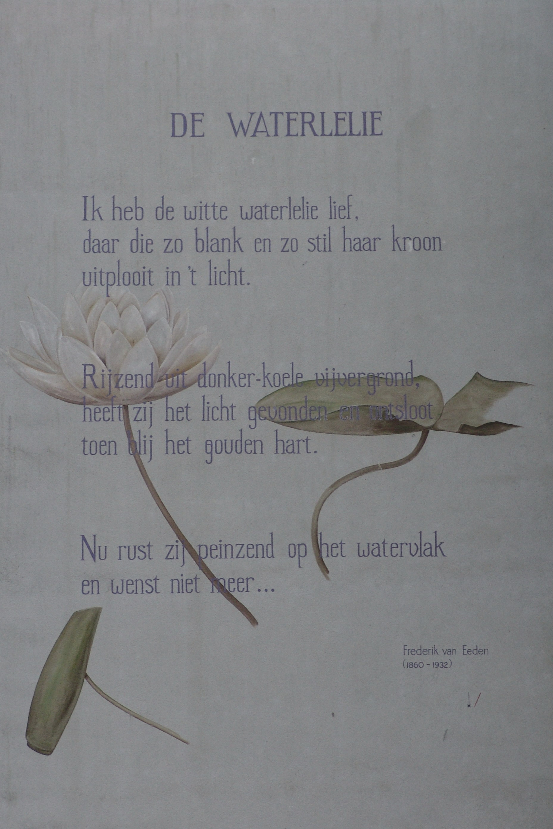 Wallpoem at Valkenhorst 30 in the city of Leiden in the Netherlands.